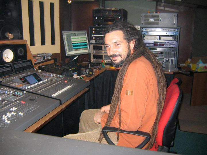 hierbamala hierba levi papa tambo in studio